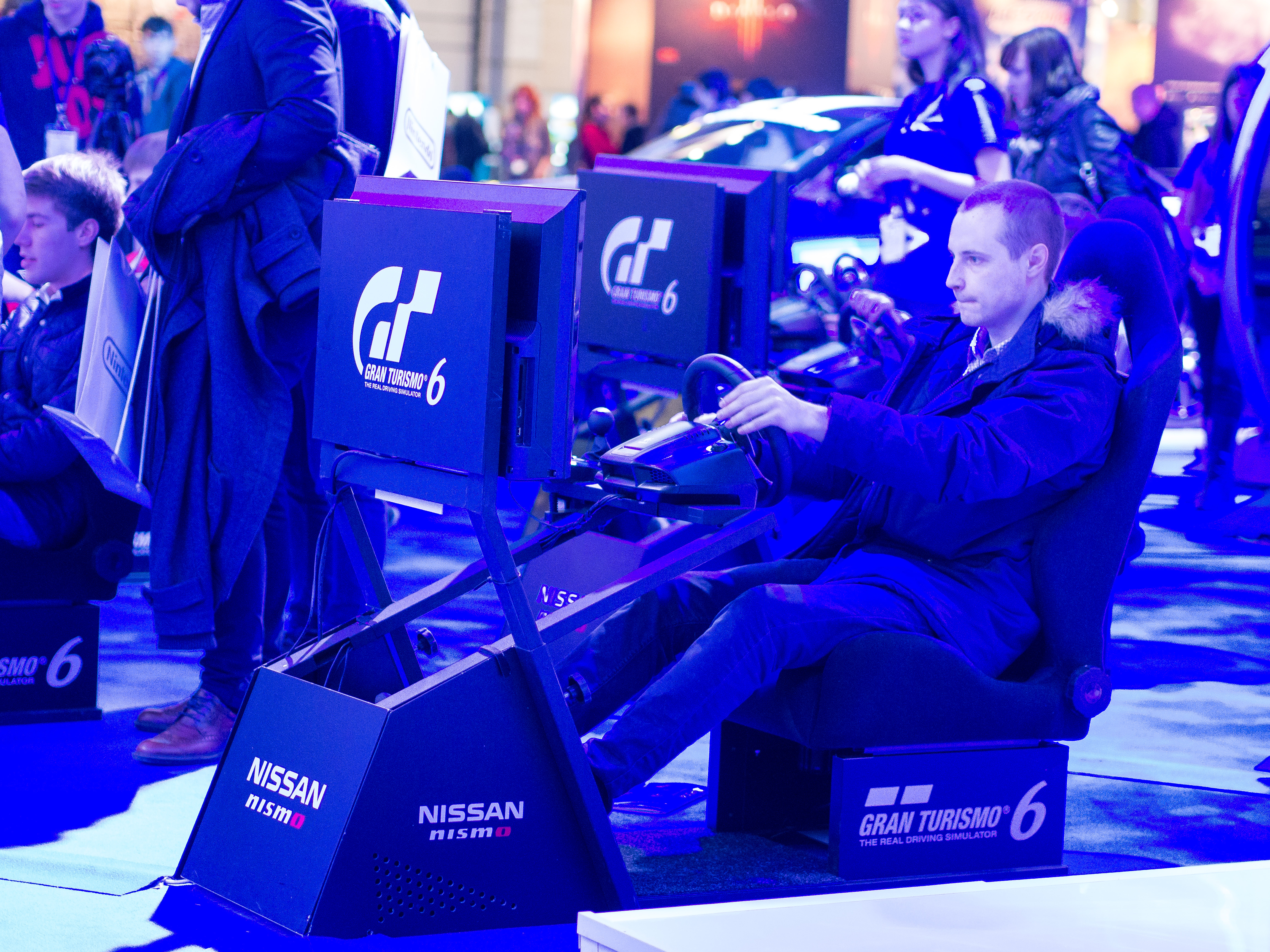 Russian gaming expo Taken on October 3, 2013 Olympus E-PL5